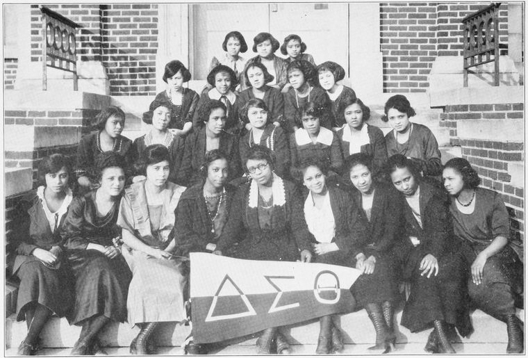 Delta Sigma Theta Chapter at Wilberforce University (Ohio) in 1922. (PD)